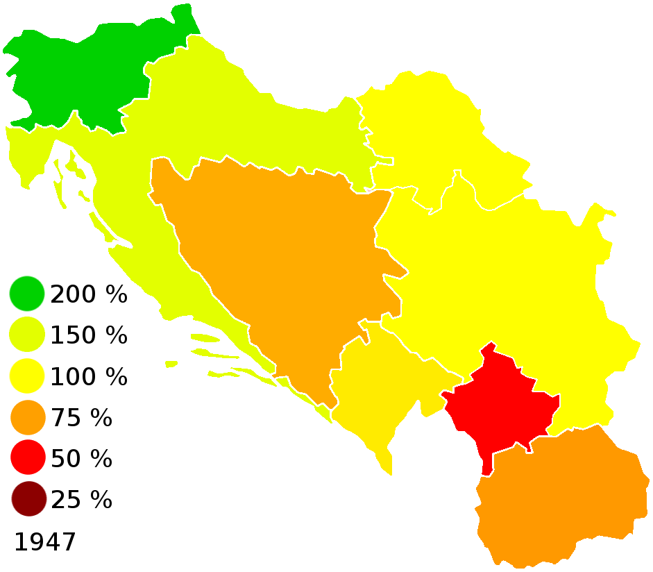 Average strength of yugoslav economy as a deviation from the main (Yugoslavia = 100 %) indicator. The source for 1947, 1965 and 1975 is Ekonomska Politika no. 1370 (3 July 1978), page 18, for 1988 Lampe's book "Yugoslavia as a history"